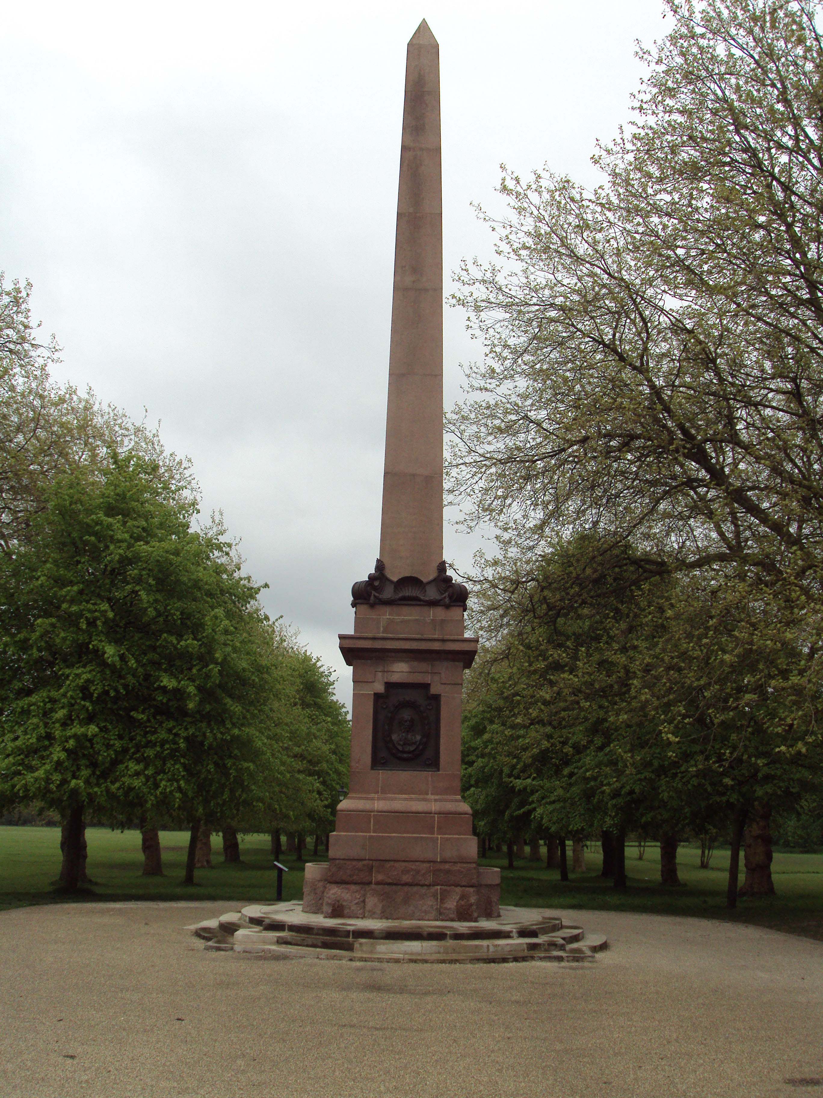 Samuel Smith Memorial, Sefton Park, Liverpool.